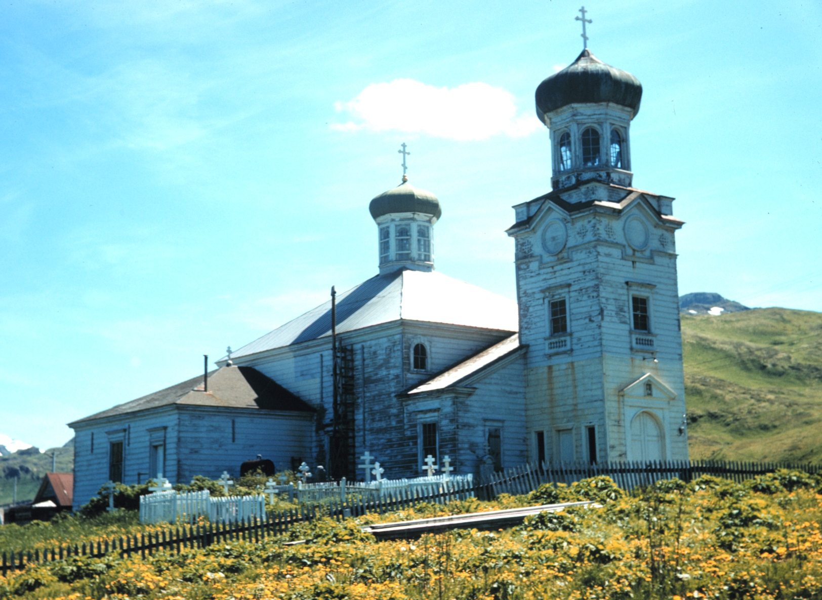 The Russian Orthodox Church at Unalaska, Unalaska Island, Aleutian Islands, Alaska.